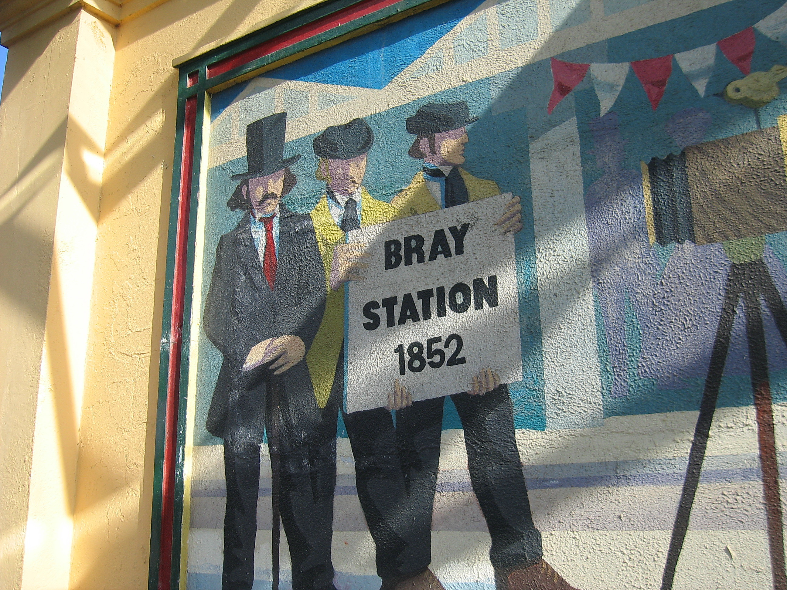 A panel in an extensive mural at Bray Railway Station